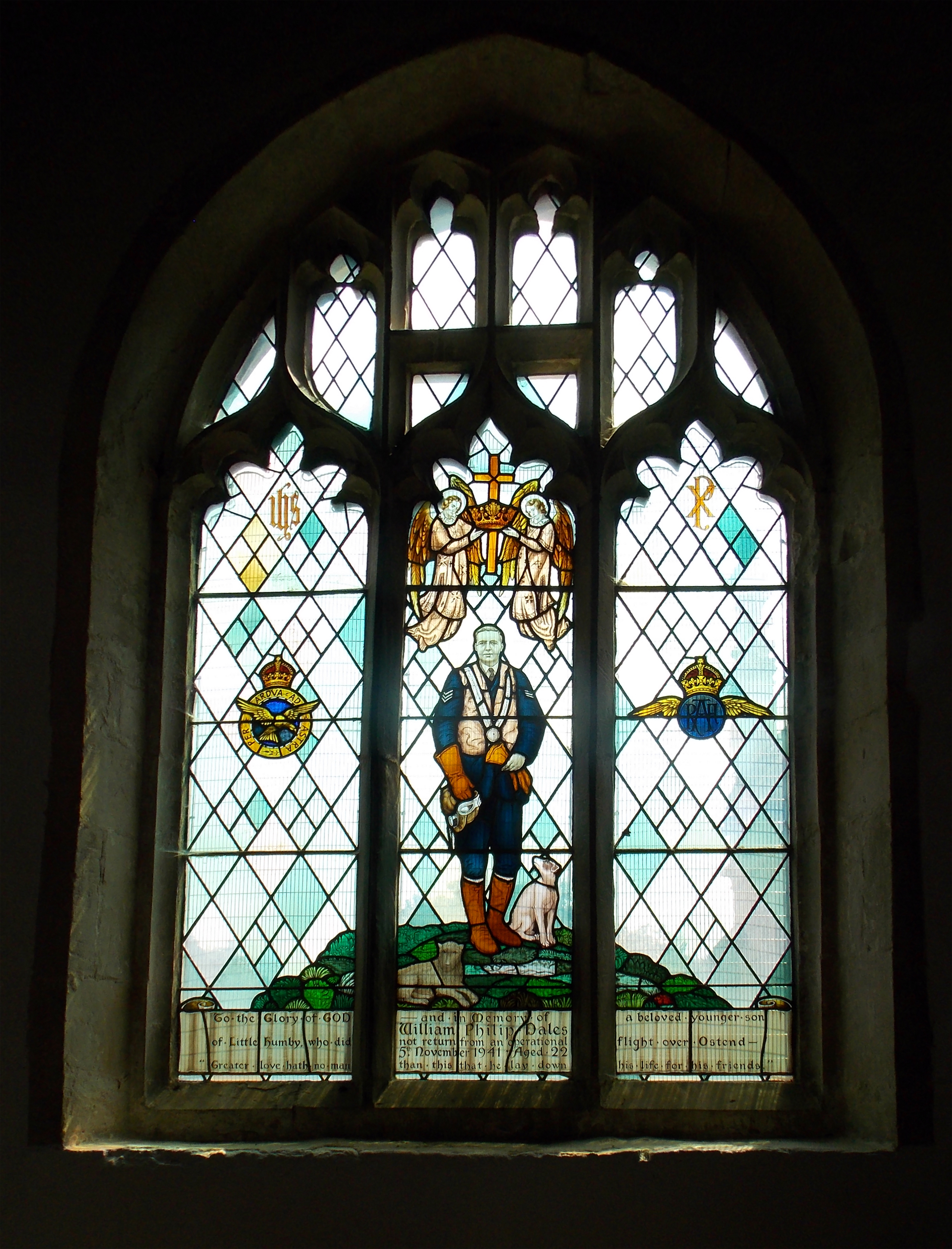 Ropsley St Peter's 1949 stained window to RAF fighter pilot Philip Dales